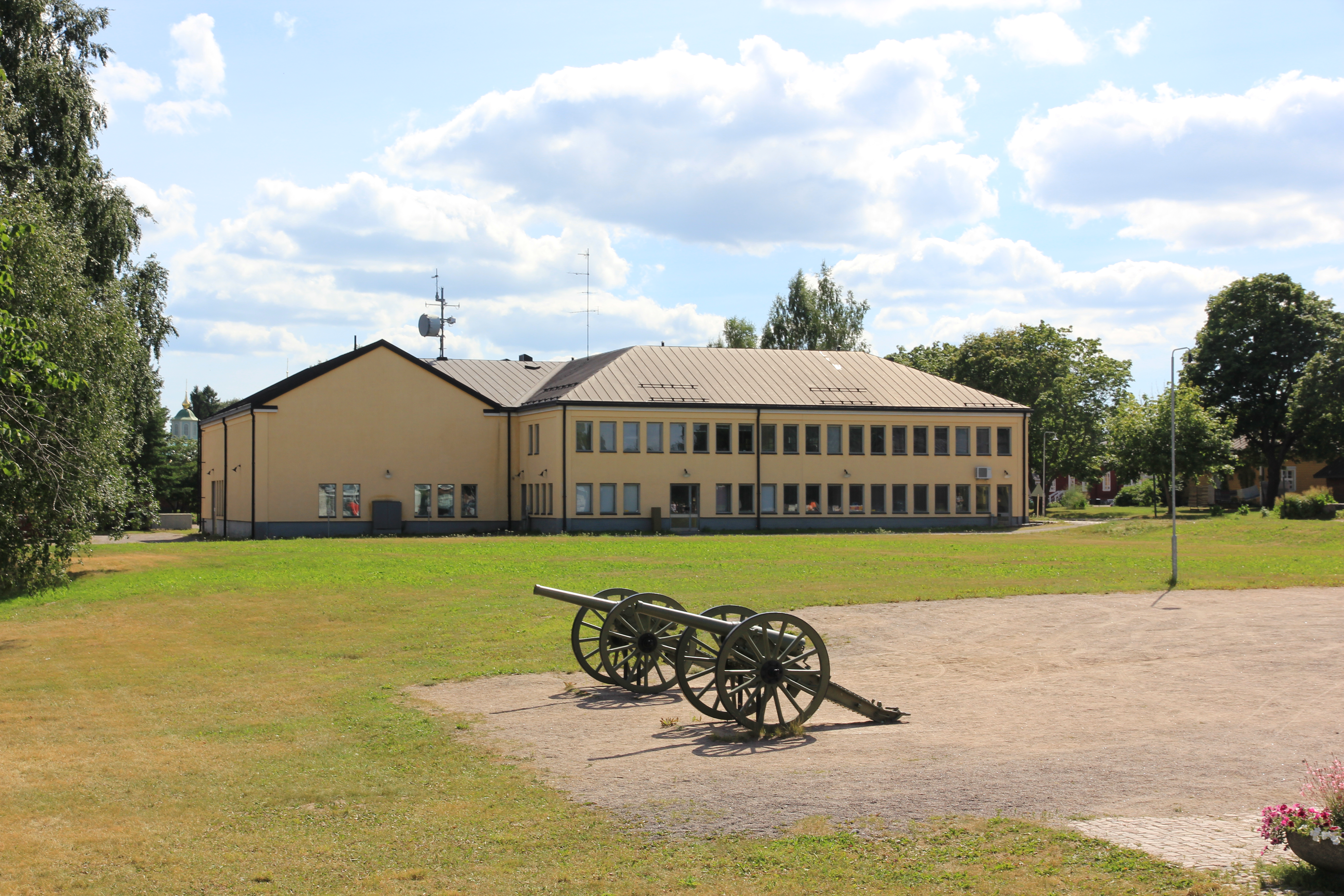 A pair of De Bange 90 mm cannons in Lappeenranta Fortress. Yleisradio radiotalo building on the background..